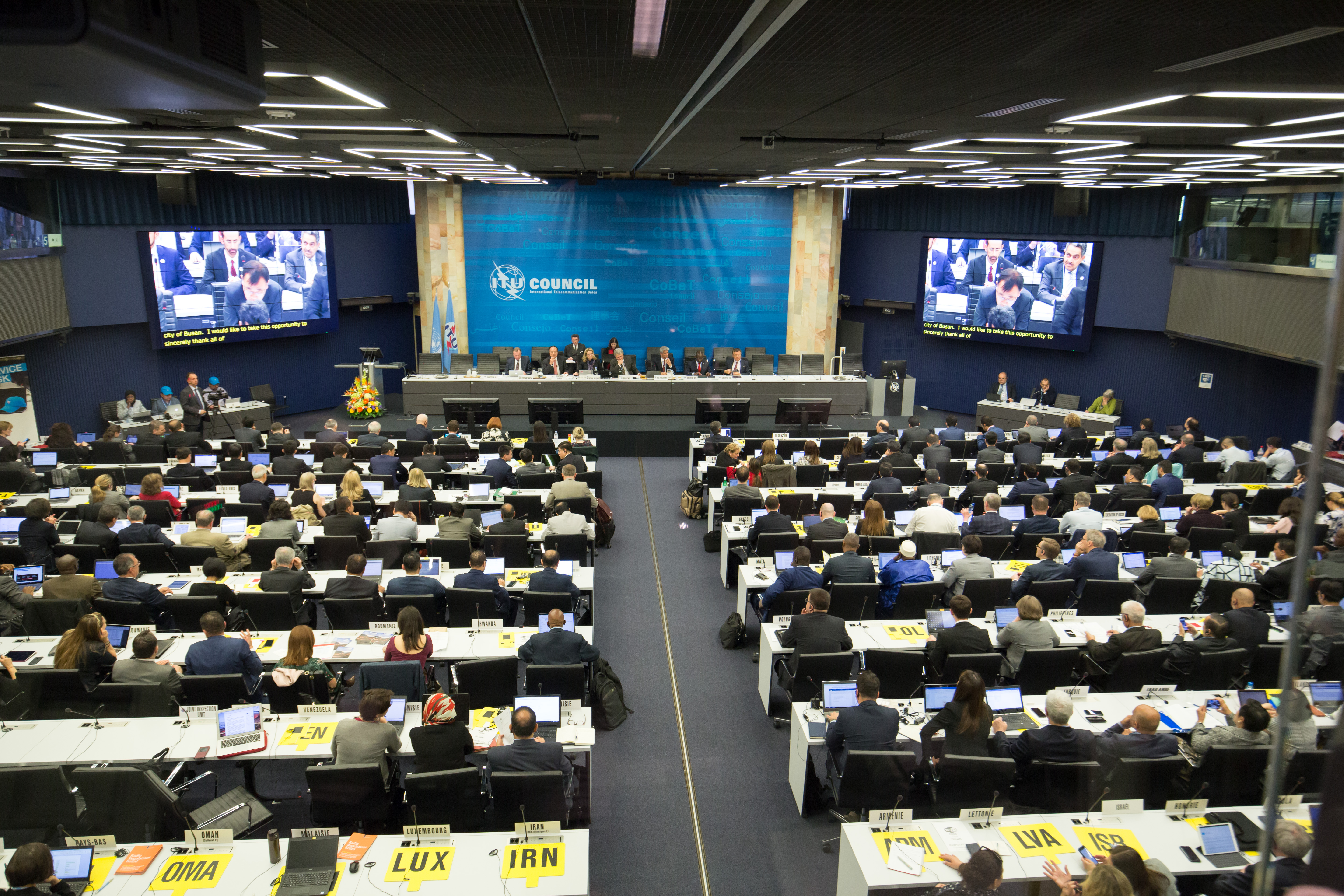 ITU Council 2018 17-27 April 2018 Geneva, Switzerland ©ITU/D.Woldu